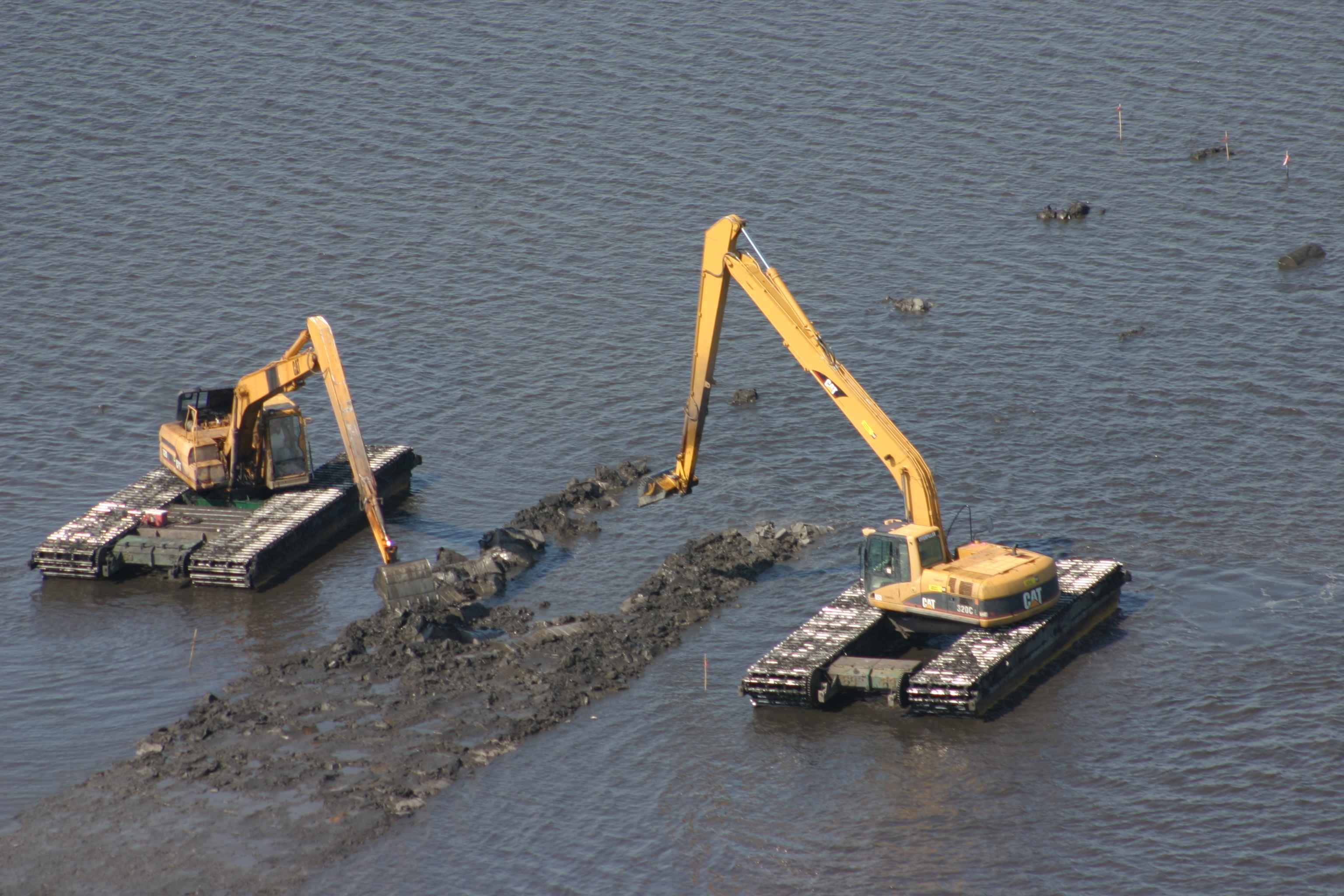 Image title: Building duck wing terraces with heavy veachles Image from Public domain images website